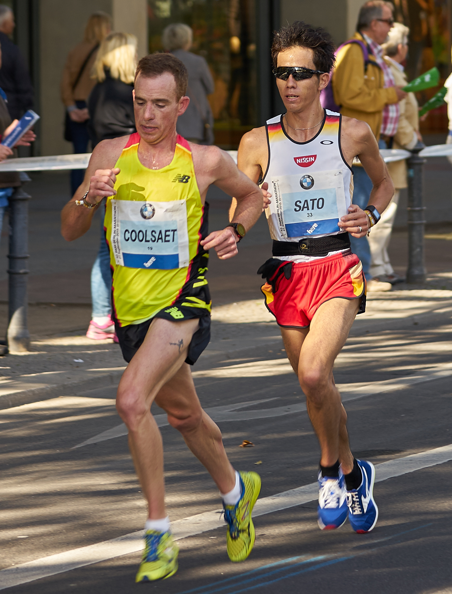 Berlin Marathon 2015 Coolsaet, Reid (CAN), Sato, Yuki (JPN)